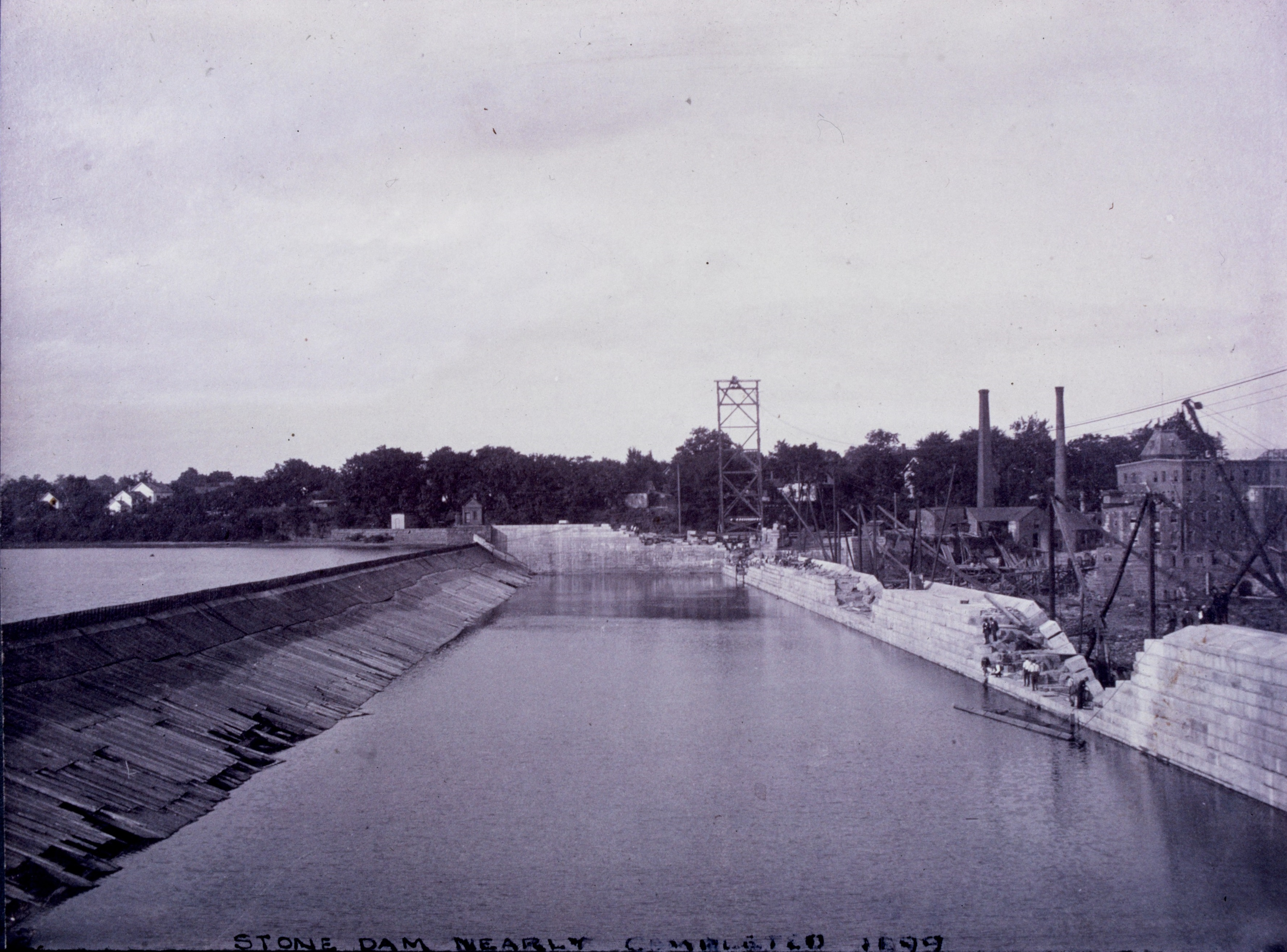 Photo of the second Holyoke Dam with its wooden apron (left) and the third and current granite dam, nearing completion. Notice the cables overhead used for construction.